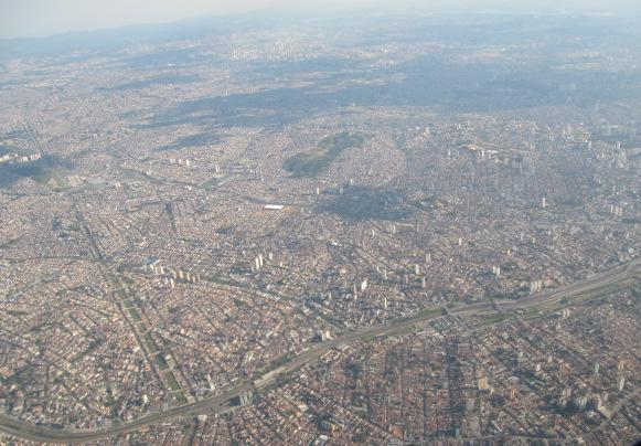 Santiago bird-view